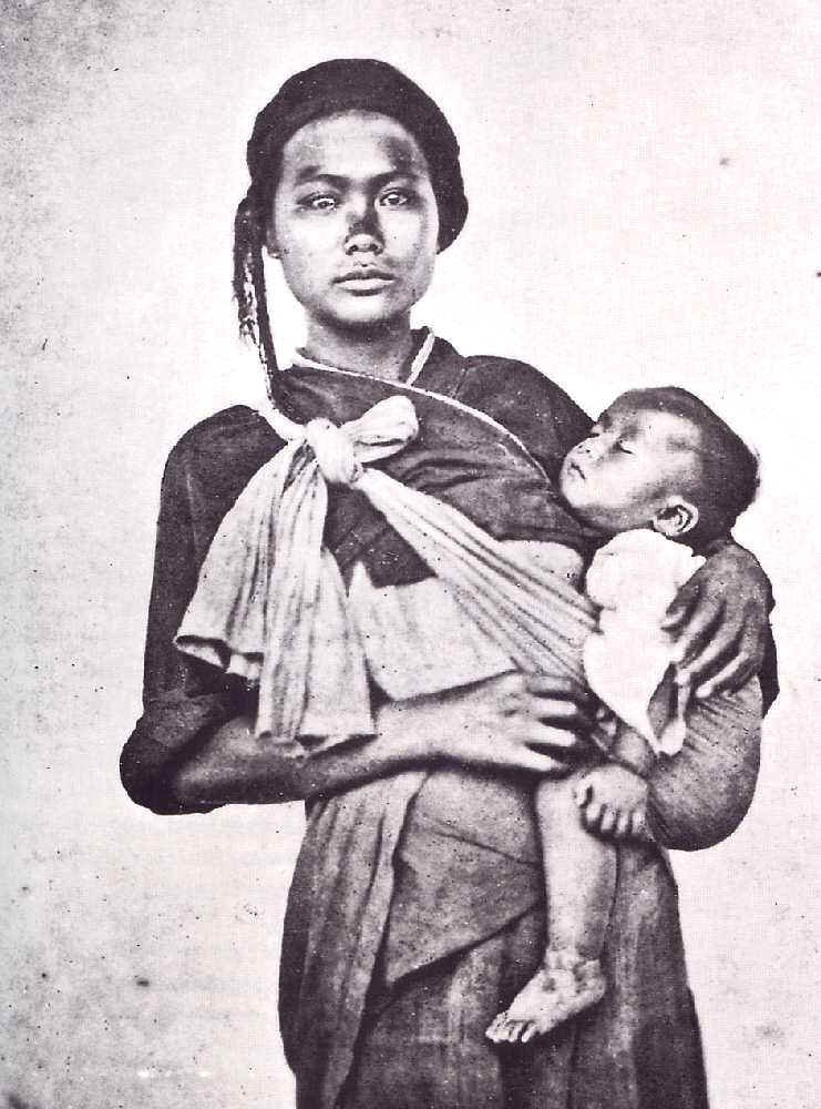 Taiwanese aborigine woman and infant.